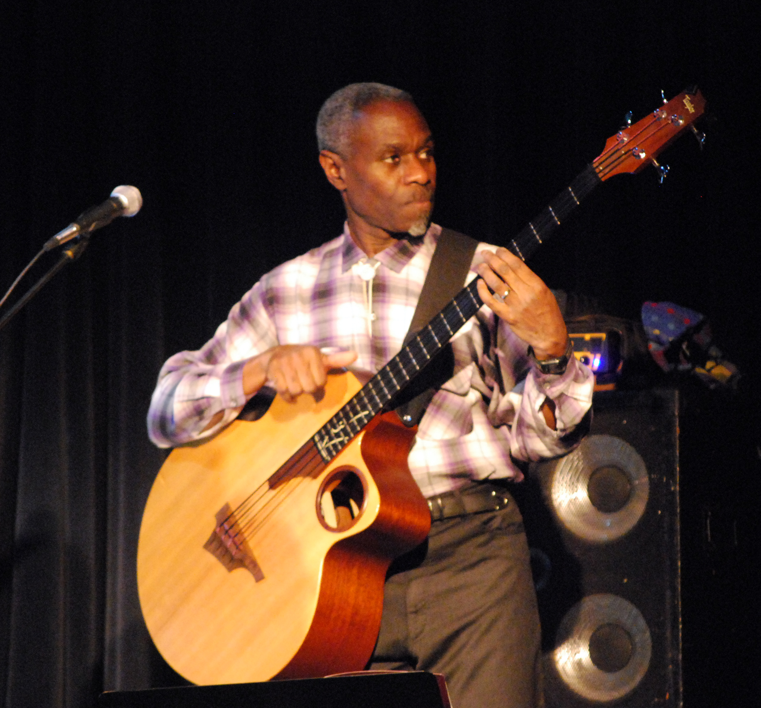 Jerome Harris, Treibhaus Innsbruck, 2009. Concert with David Krakauer's Klezmer Madness